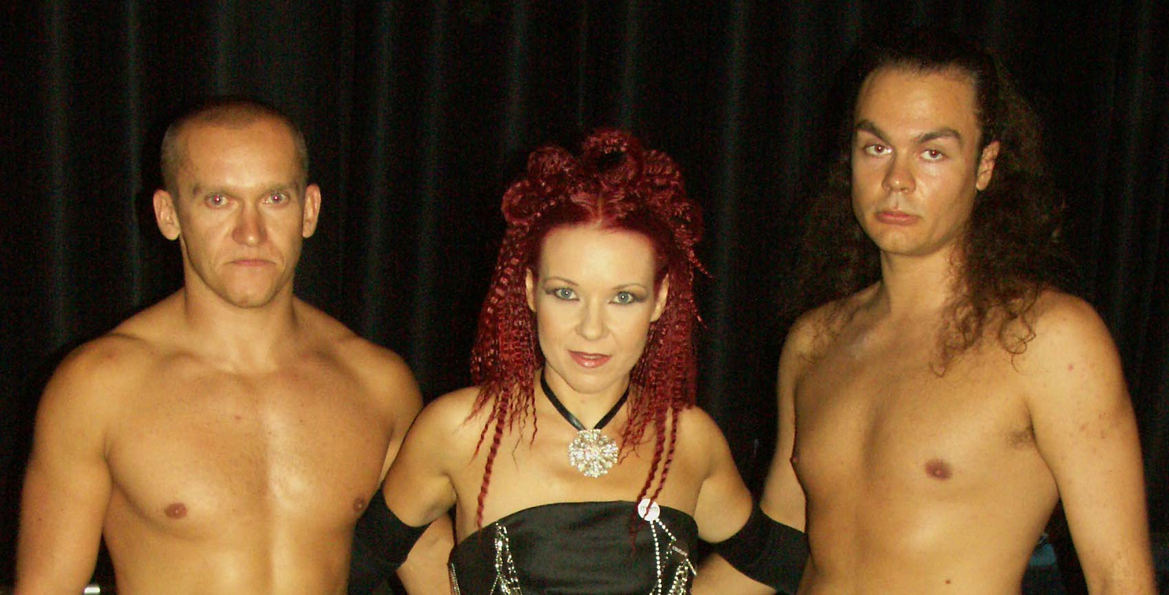 "Regina", slovenian pop singer.